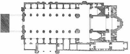 Plan of Palermo Cathedral in XIX cent